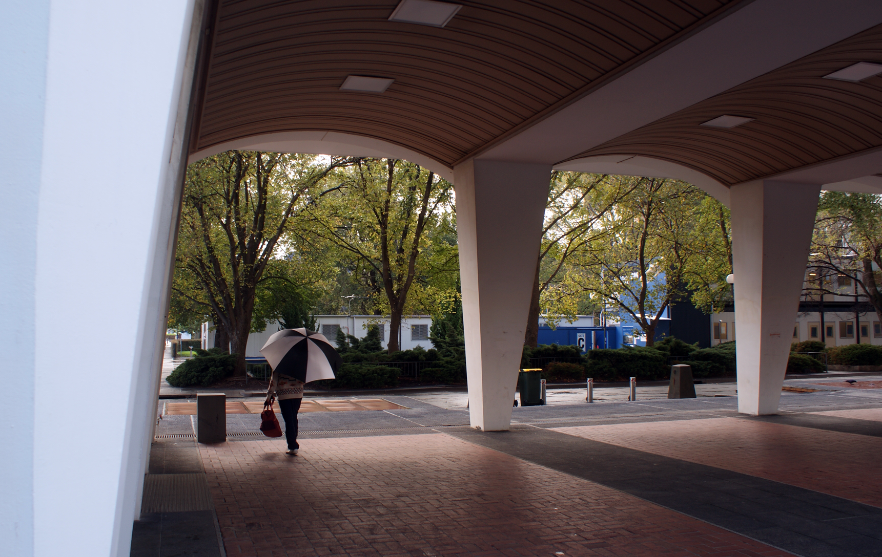 Raymond Priestley Building is a large University Administration building, used as office and function space. Designed by staff Architect at the time, Rae Featherstone.